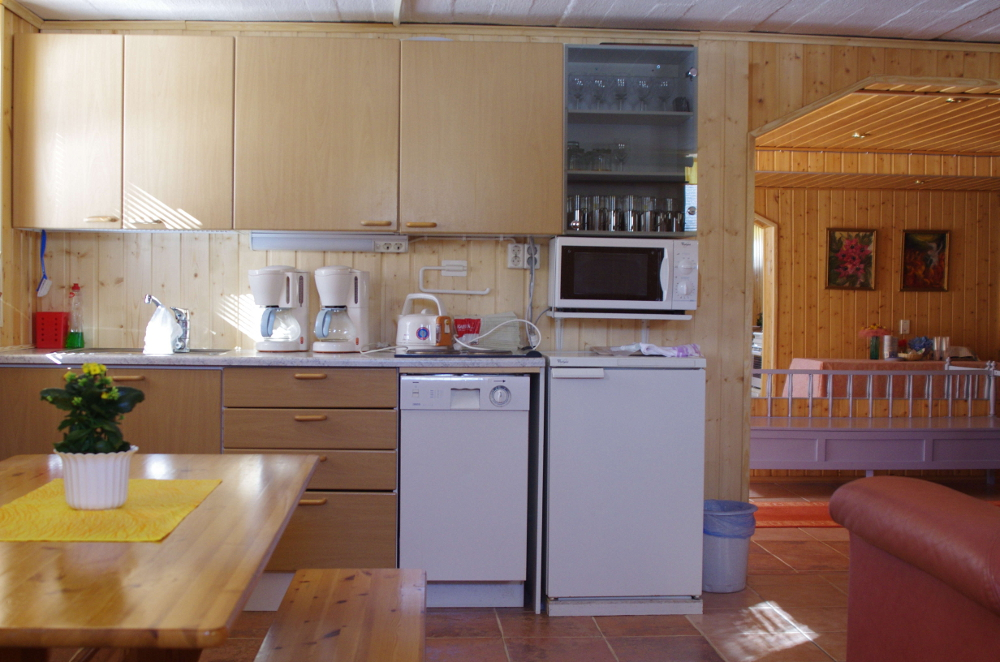 kansanopisto_3